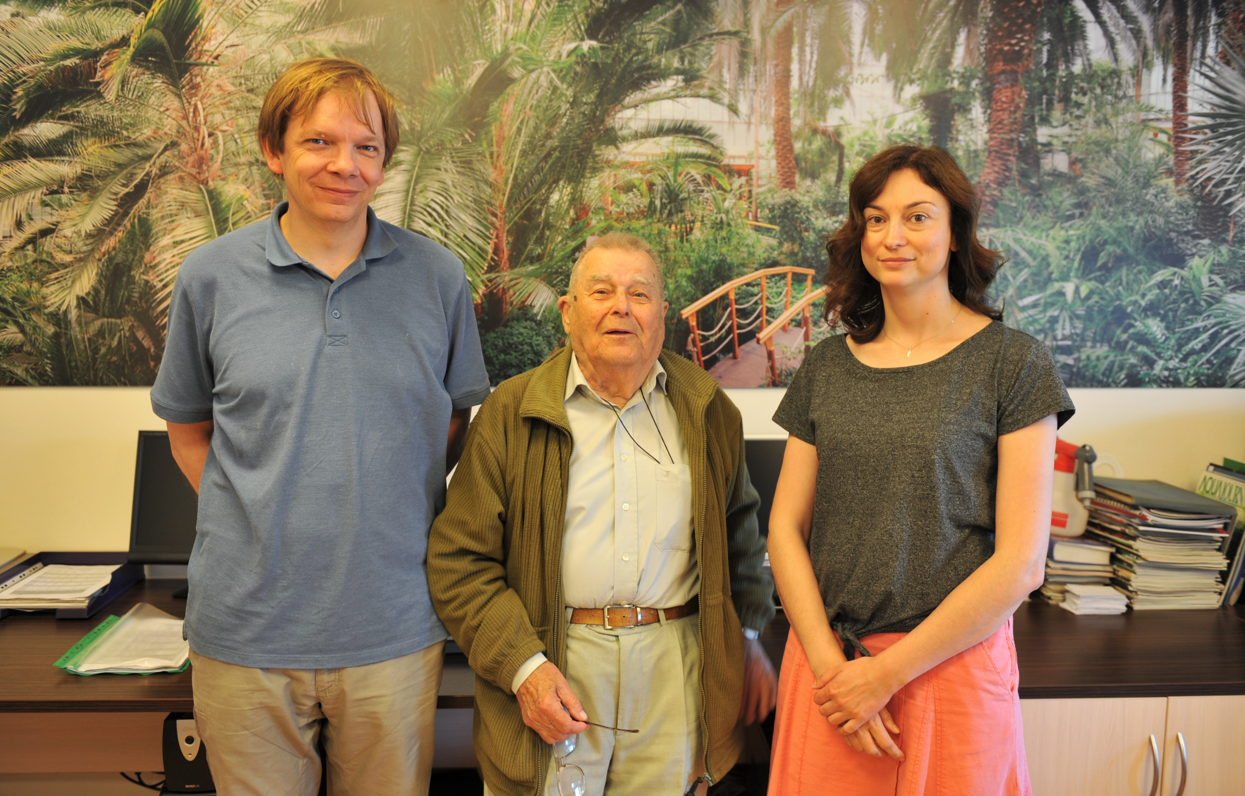 Designer of the Palm House in Gliwice, arch. Andrzej Musialik (in the center), manager of the Palm House Marek Bytnar and his deputy Barbara Trzebińska during the meeting in PH, 24 May 2018.